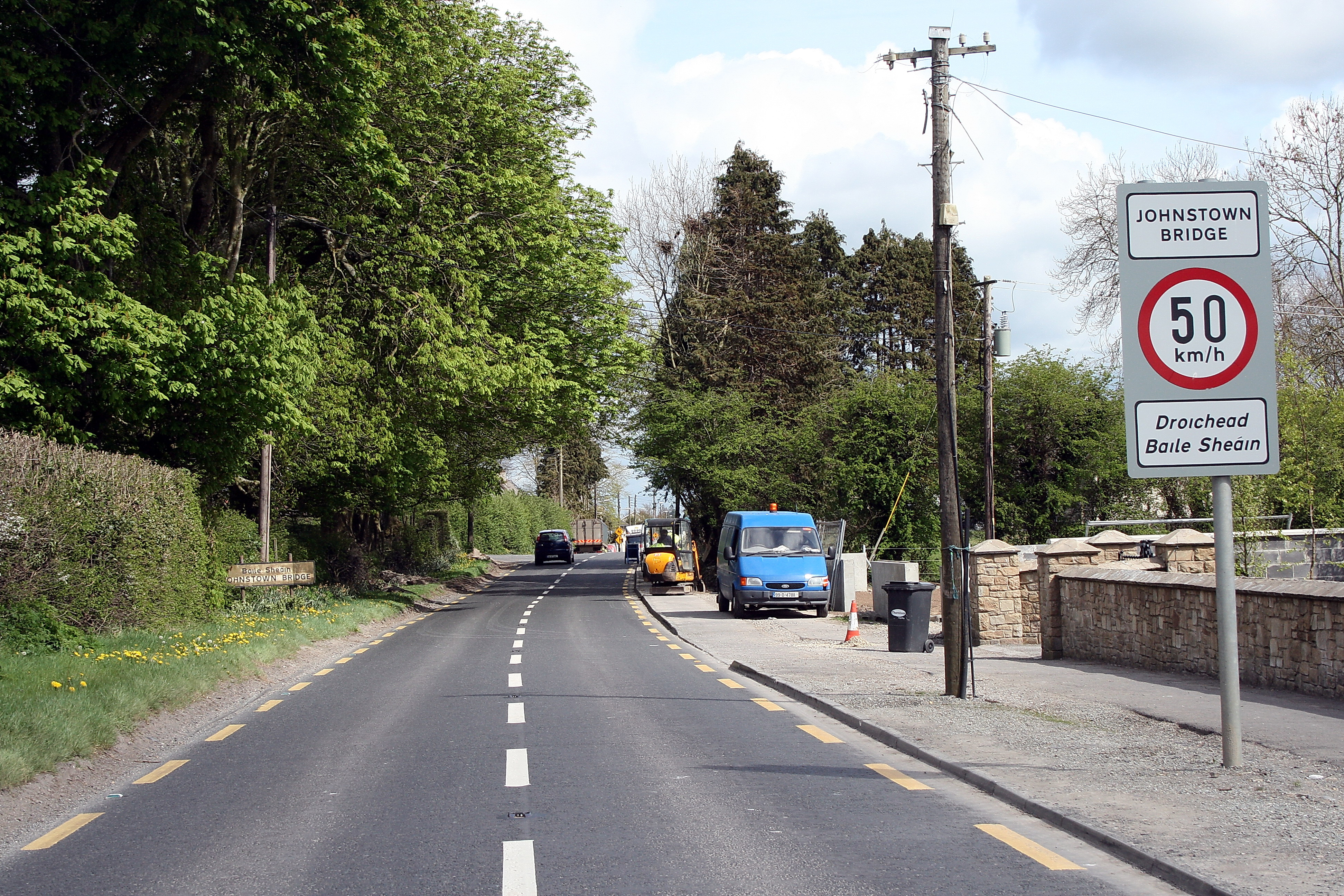 Johnstown Bridge in County Kildare on the R402 road approaching from the west